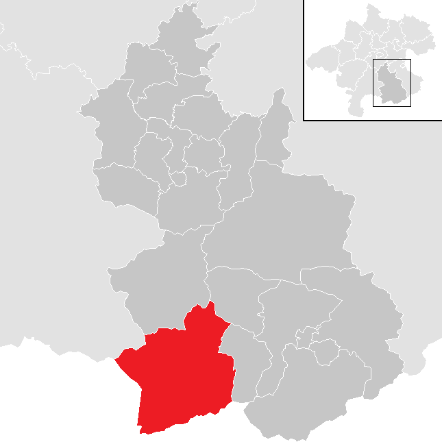 district Kirchdorf an der Krems